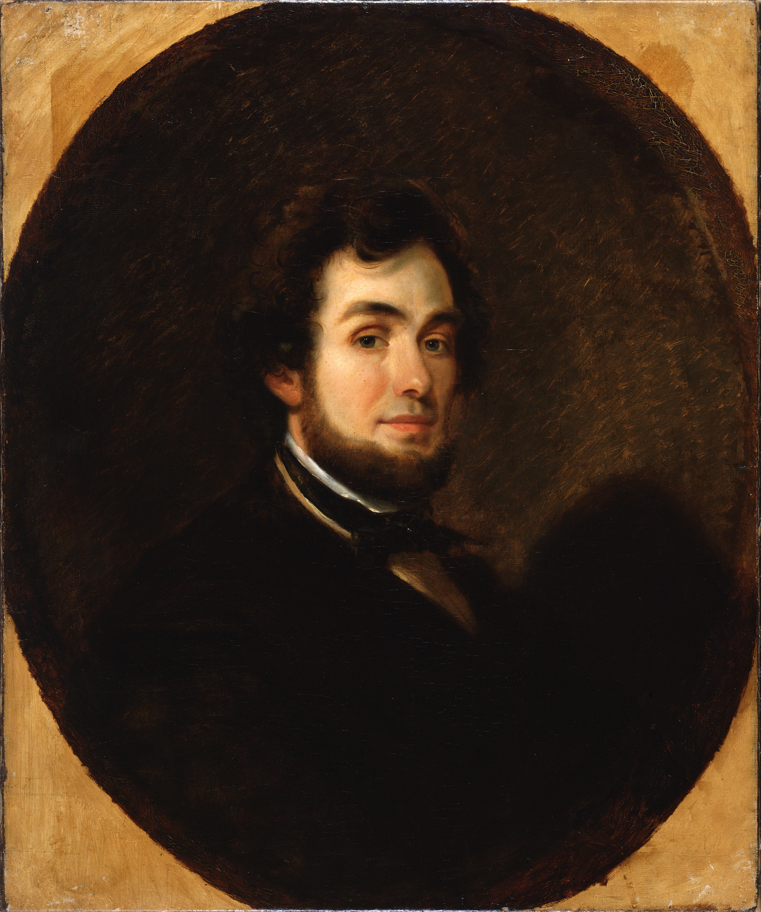 The artist has portrayed himself at about the age of forty. He has chosen an oval format and has applied the pigments extremely thinly in smooth brush strokes, as was characteristic of many of his mature works. Other self-portraits include a small oil sketch on academy board painted about 1827, a pencil sketch probably made during his western trip in 1837, and a later work showing him as a bearded individual.